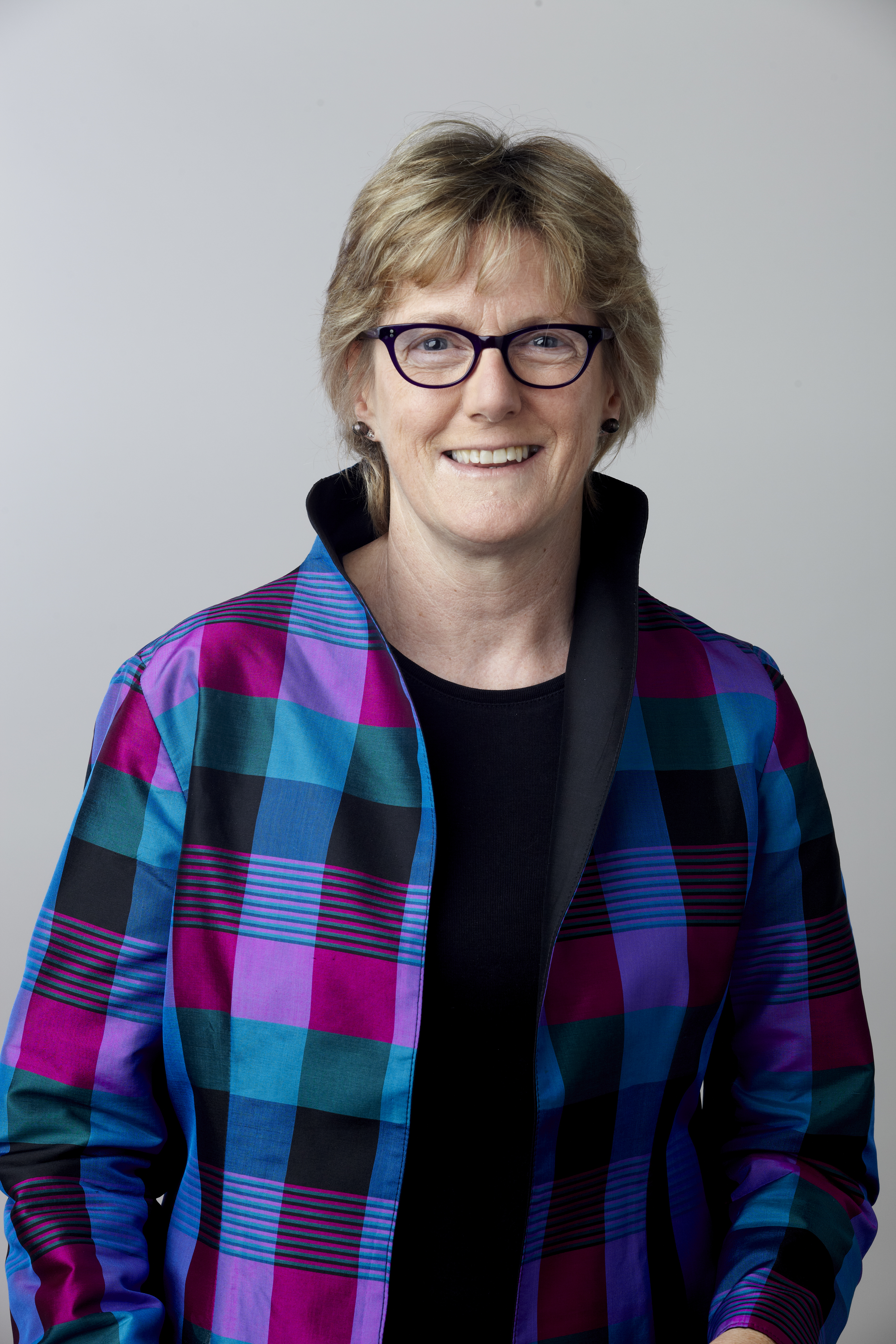 Dame Sally Davies FMedSci DBE FRS, Royal Society Fellow elected 2014 Attribution: The Royal Society